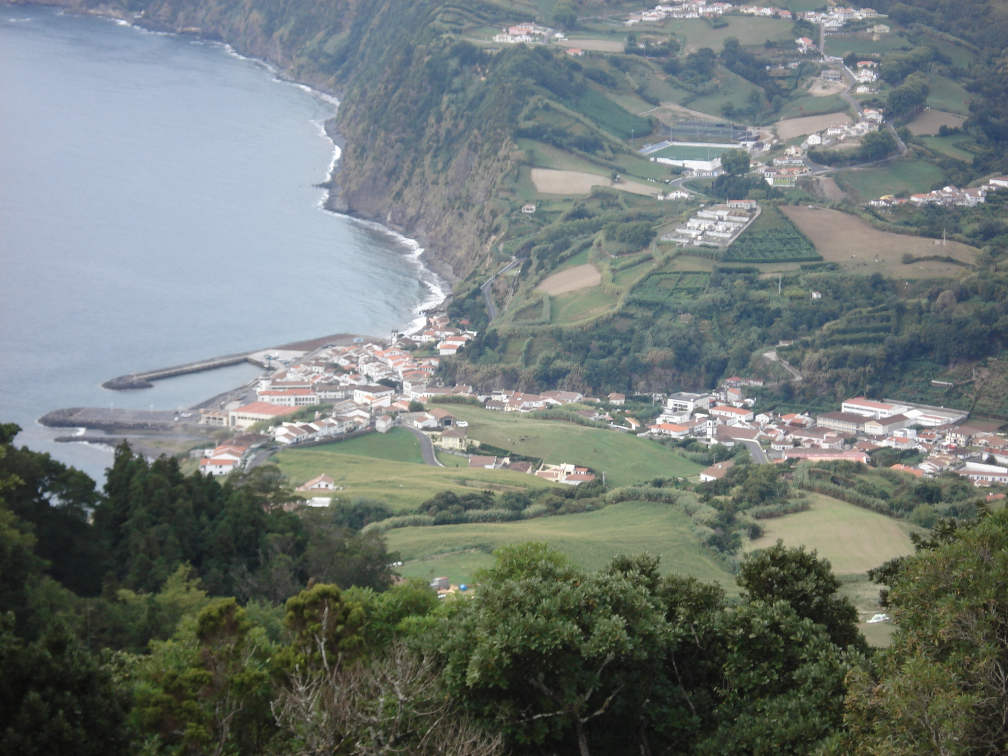 Povoação as seen from Pico dos Bodes, municipality of Povoação, São Miguel Island